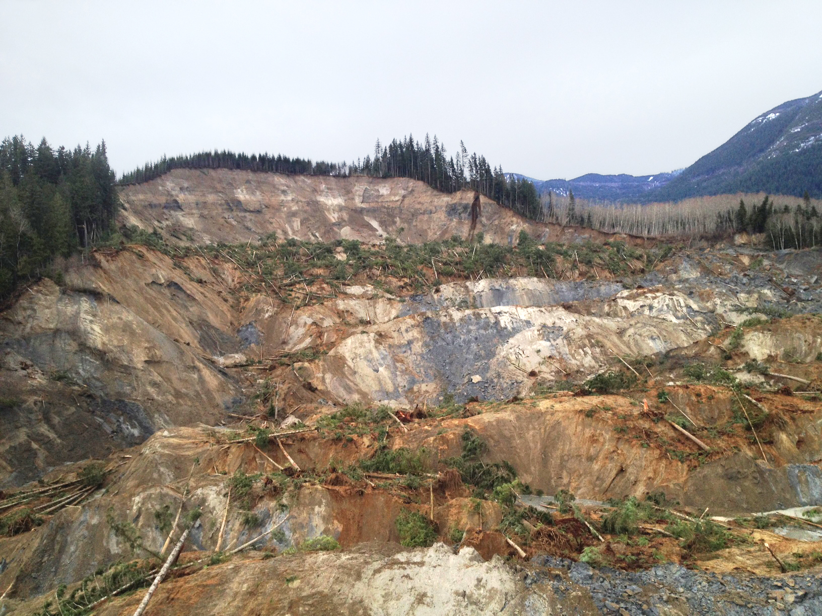 A view of the Oso area of Snohomish County, Wash., March 22, 2014, as a U.S. Navy search and rescue crew and three Navy firefighters based at Naval Air Station Whidbey Island, Wash., assist with search and recovery efforts following a mudslide that killed at least 14 people and left dozens missing. The slide covered a 1-square-mile area in a rural community about 55 miles northeast of Seattle.